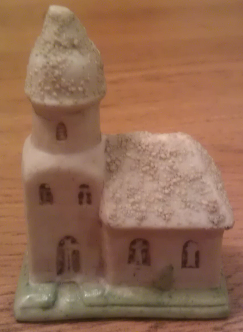 Ceramic Xmas ornament in the shape of a church. Purchased in Birmingham, England in 1924. 64mm to top of spire, which has its tip missing.